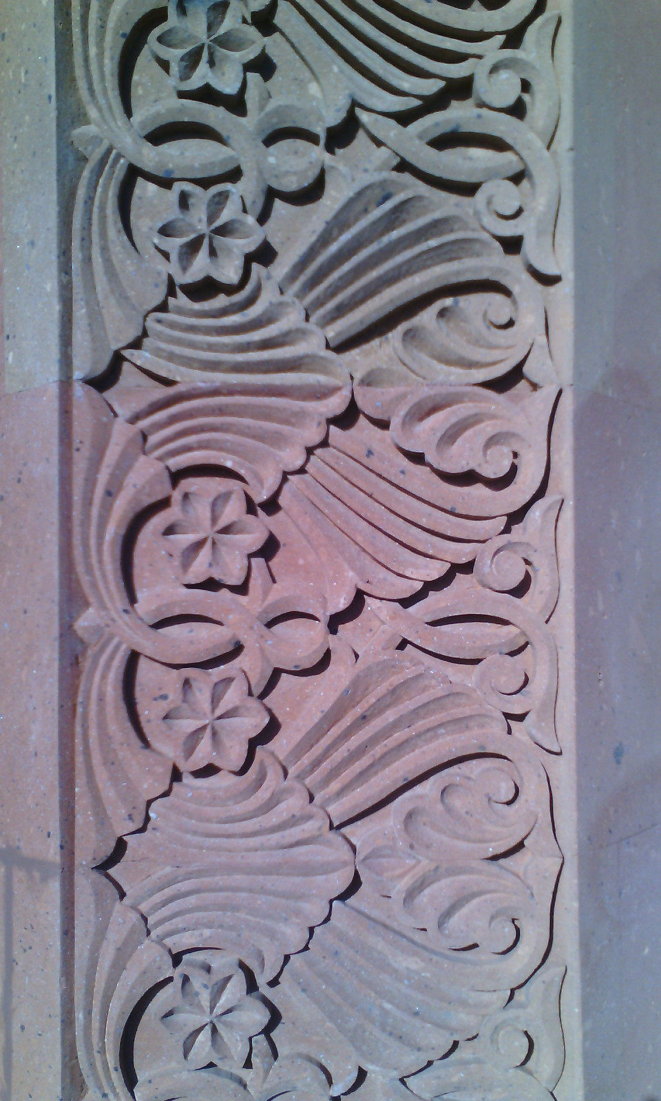 external wall patterns on tufa